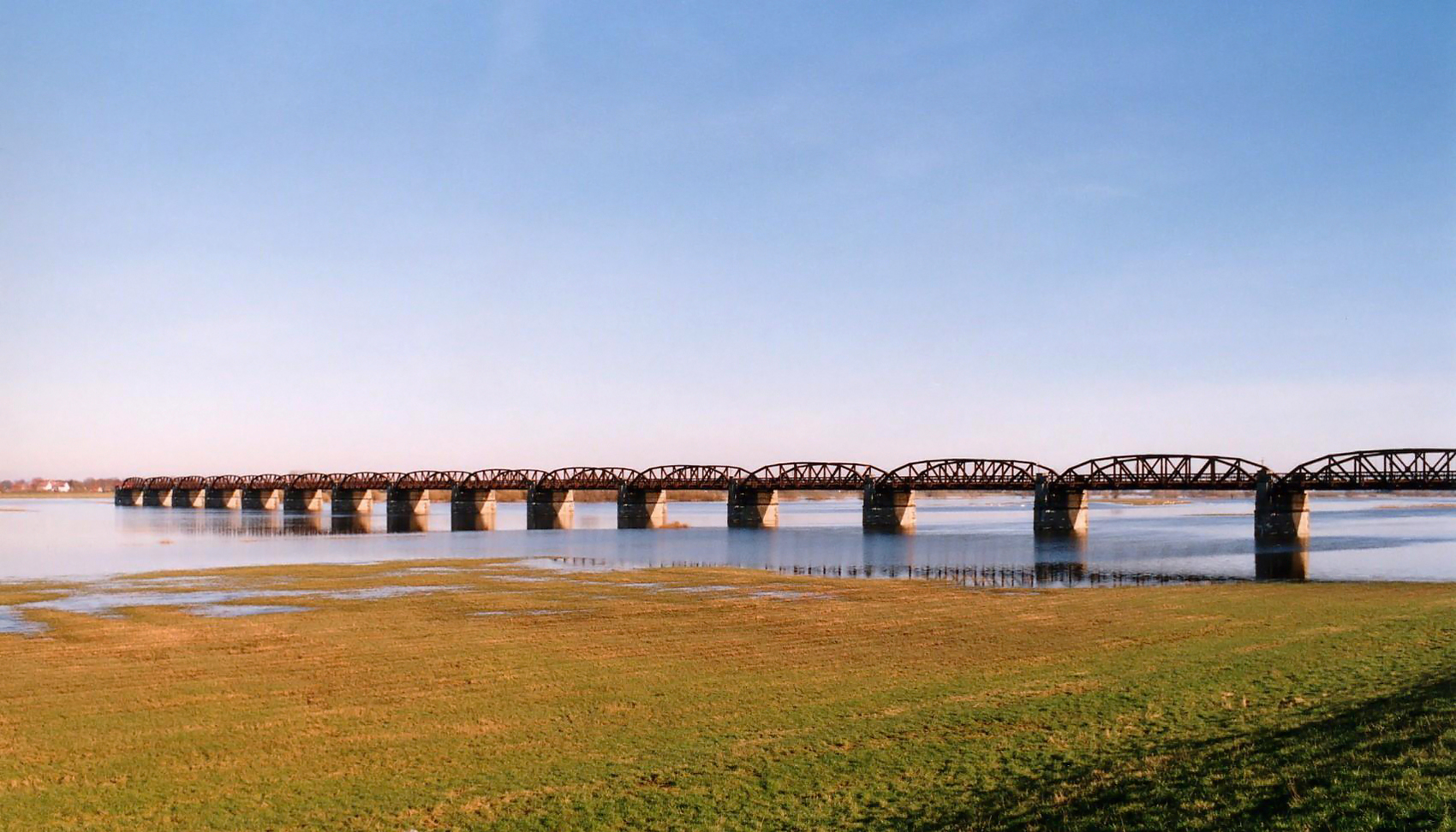 Old railway bridge (damaged in World War II) at the Elbe River near Doemitz, northern Germany.